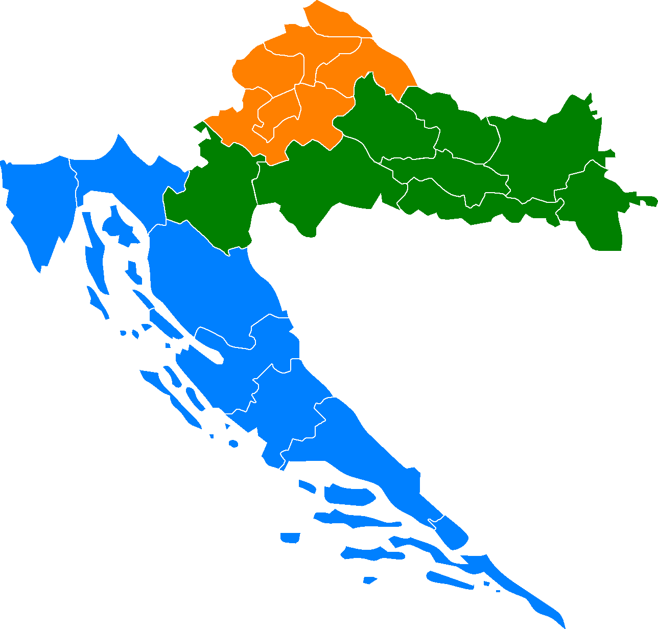 NUTS of Croatia, counties in three regions. Central and Eastern (Pannonian) are together.